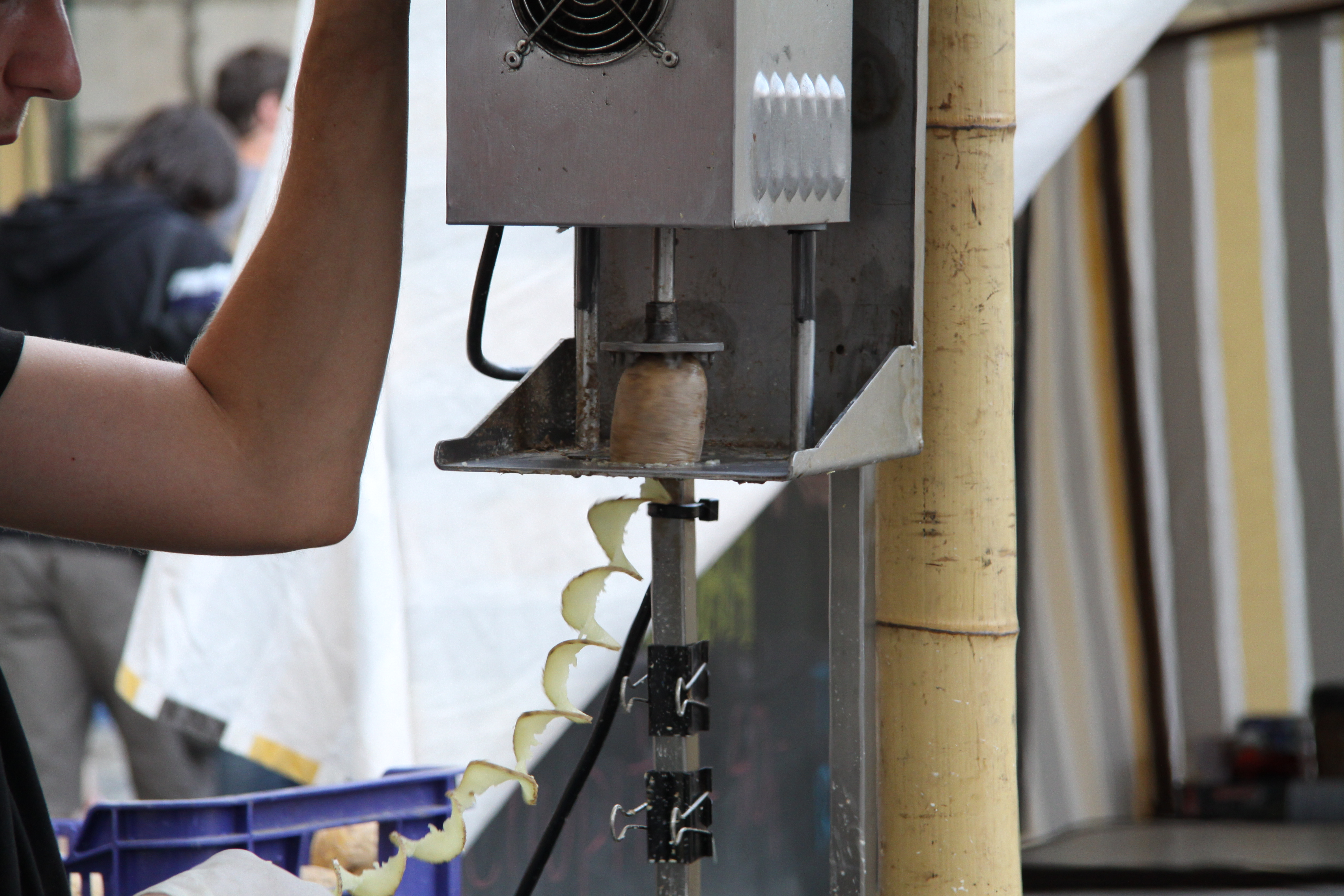 Process of production of homemade chips, Czech Republic. Firstly potato is cutted to the long and narrow slices.